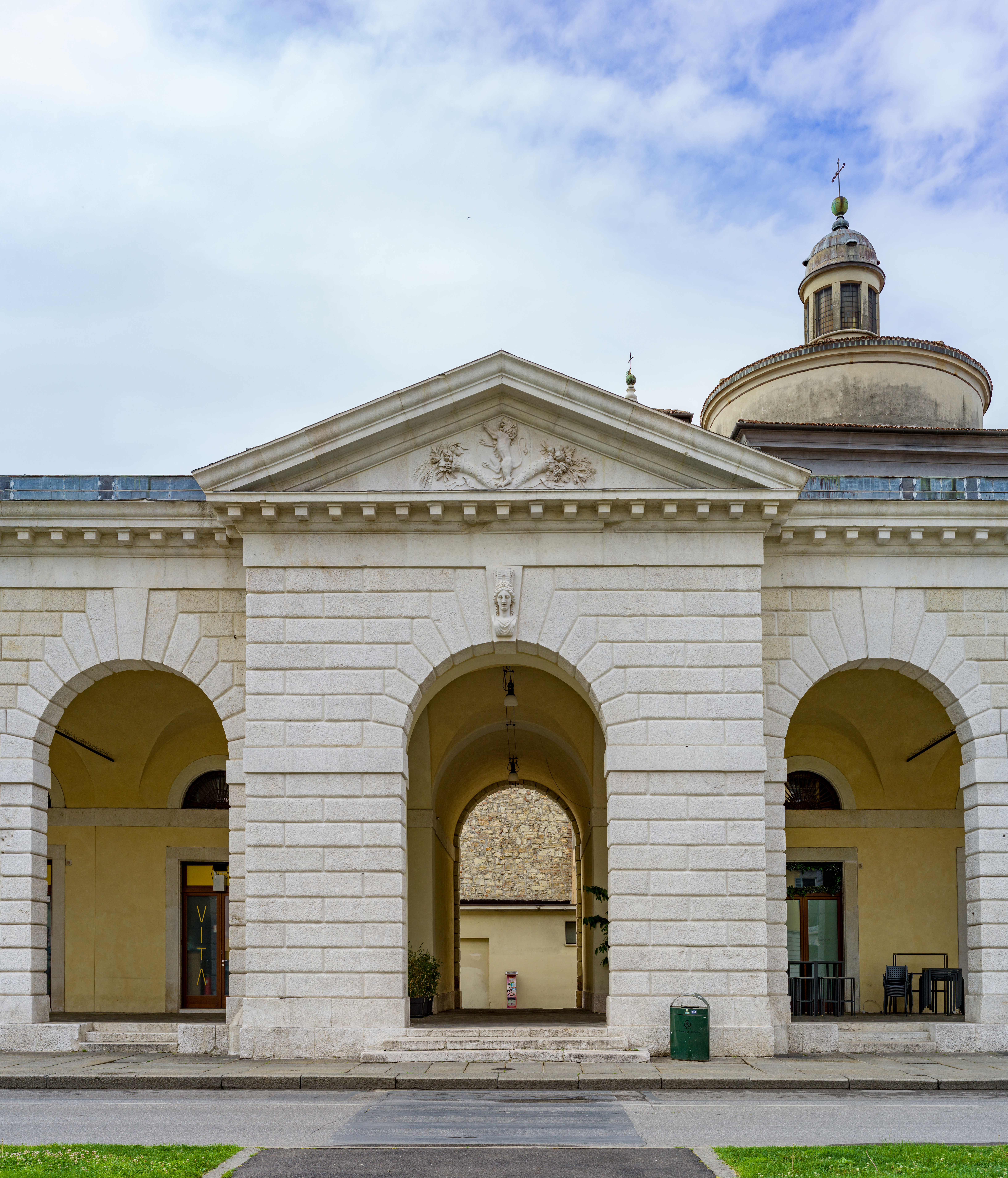 The Mercato dei Grani main arcade on the Piazzale Arnaldo square in Brescia.